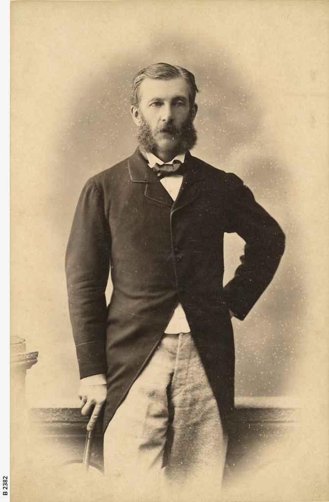 Portrait of Sir James Fergusson, 6th Baronet.